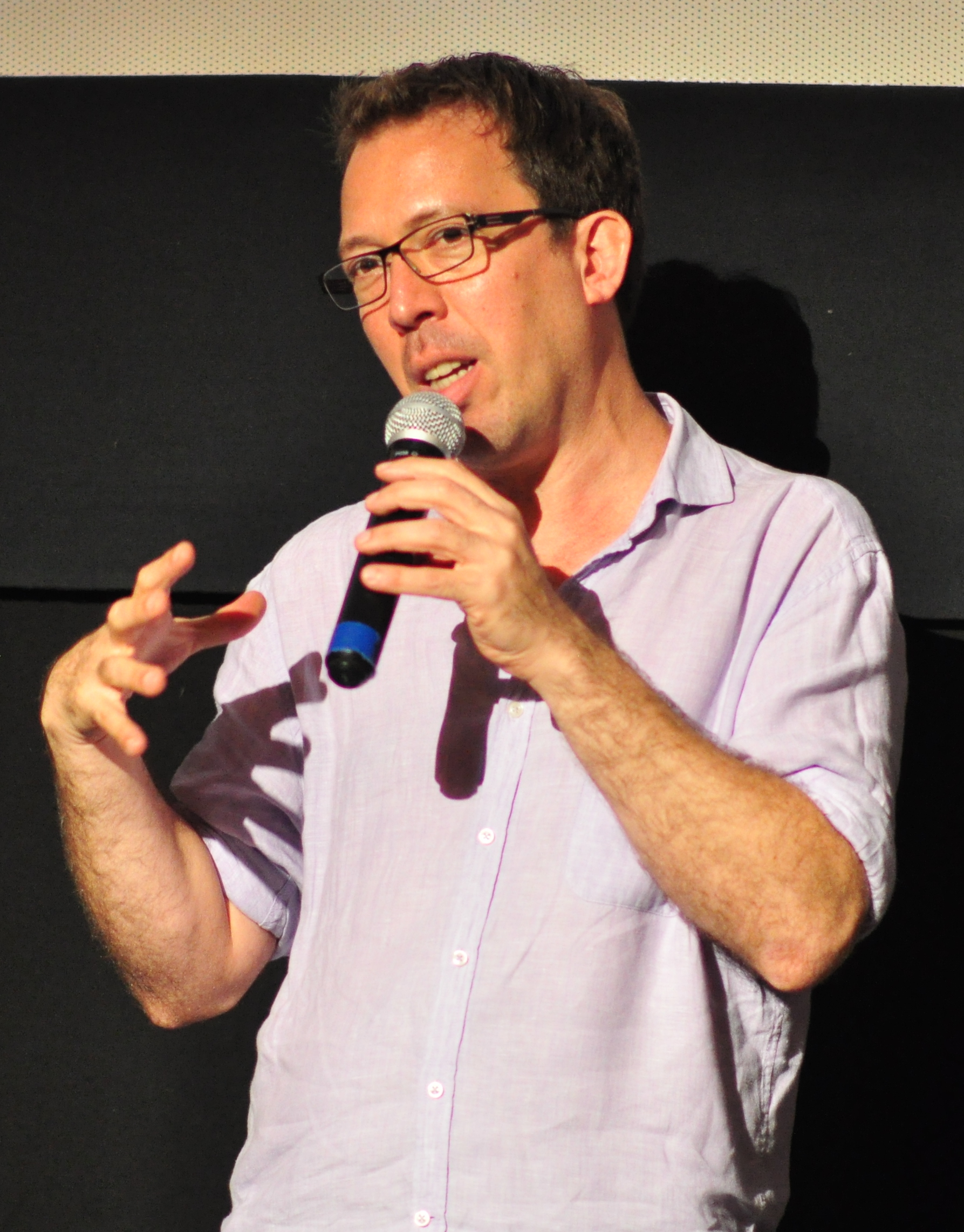 Paraguayan screenwriter and film director Marcelo Martinessi presenting his film Las herederas ("The Heiresses") at the Seattle International Film Festival 2018, Seattle, Washington.